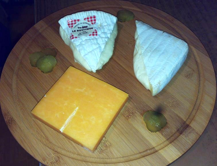 Cheese: Le Rustique (French Camembert), Robbiola, Cheddar.